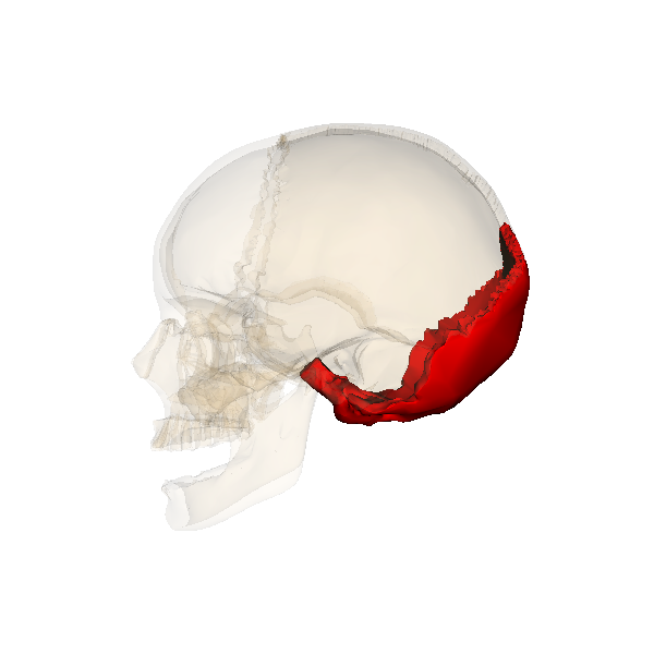 Occipital bone from Anatomography[1] maintained by Life Science Databases(LSDB).